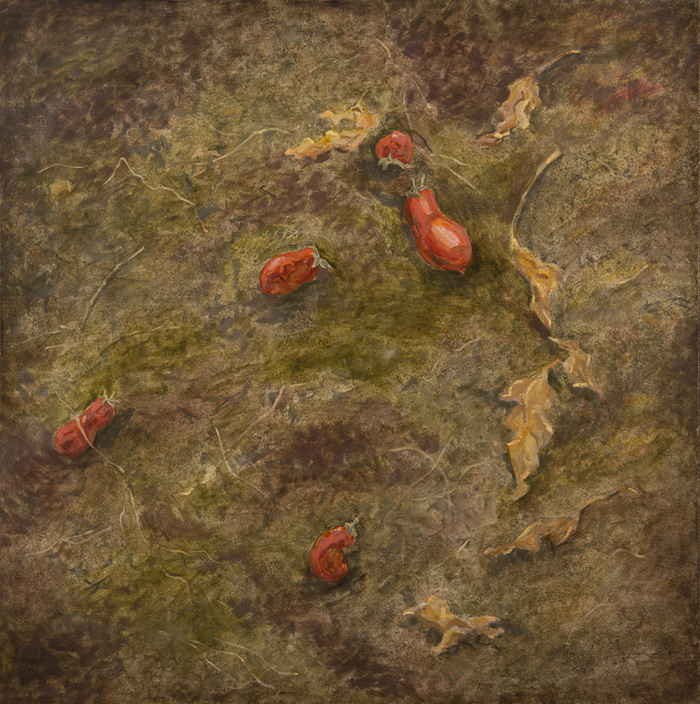 Painting by Pisha Larysa Тomatoes 2018